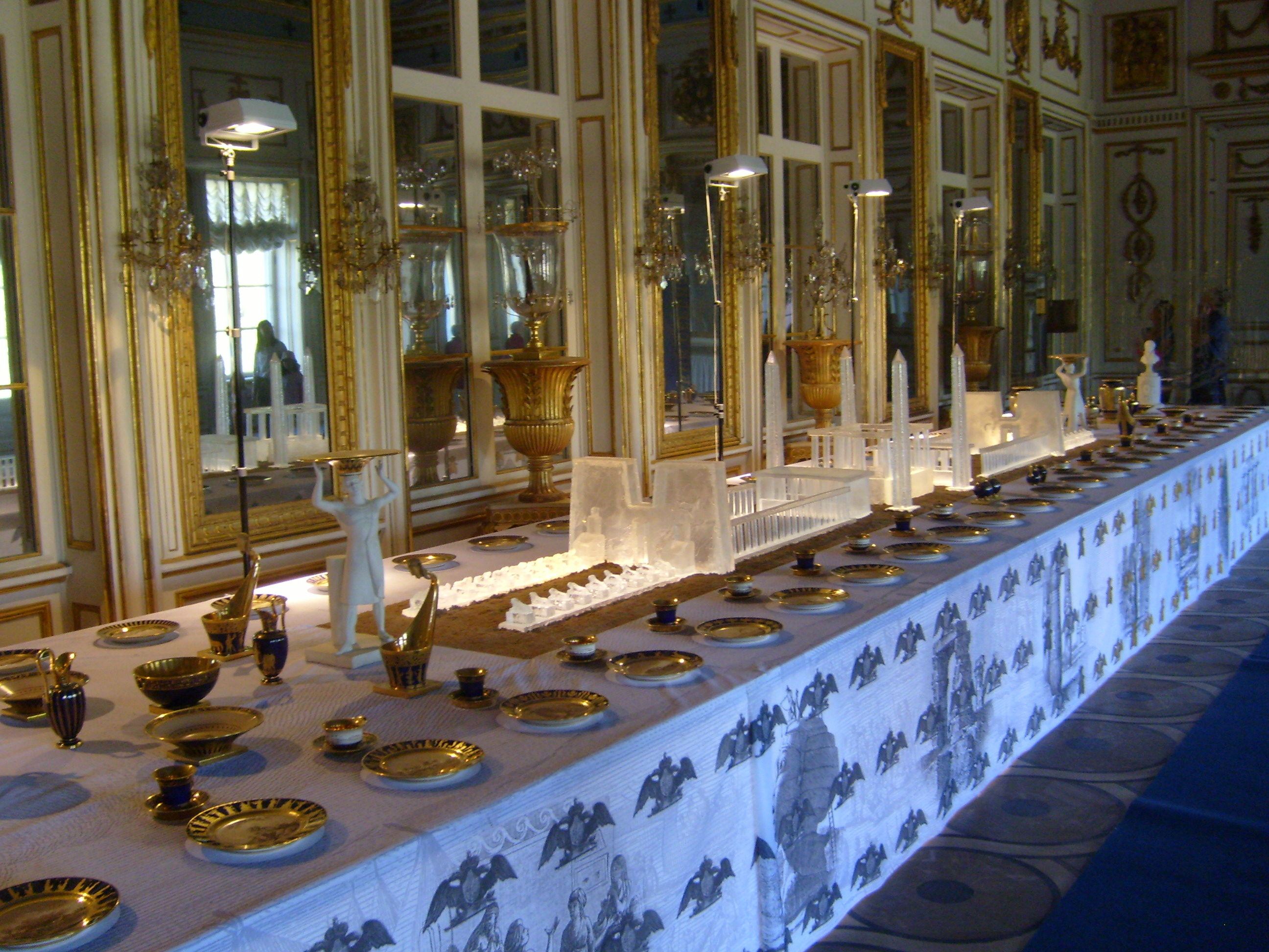 Vivant Denon's service of Sevres porcelain given by Napoleon Bonaparte to Czar Alexander ! in 1807, now in Kuskovo Palace Museum